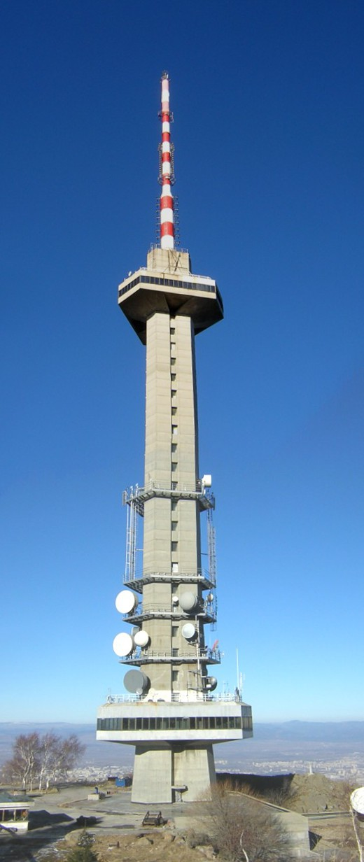 The Vitosha Mountain TV tower (also known as Kopitito) near Sofia, Bulgaria.